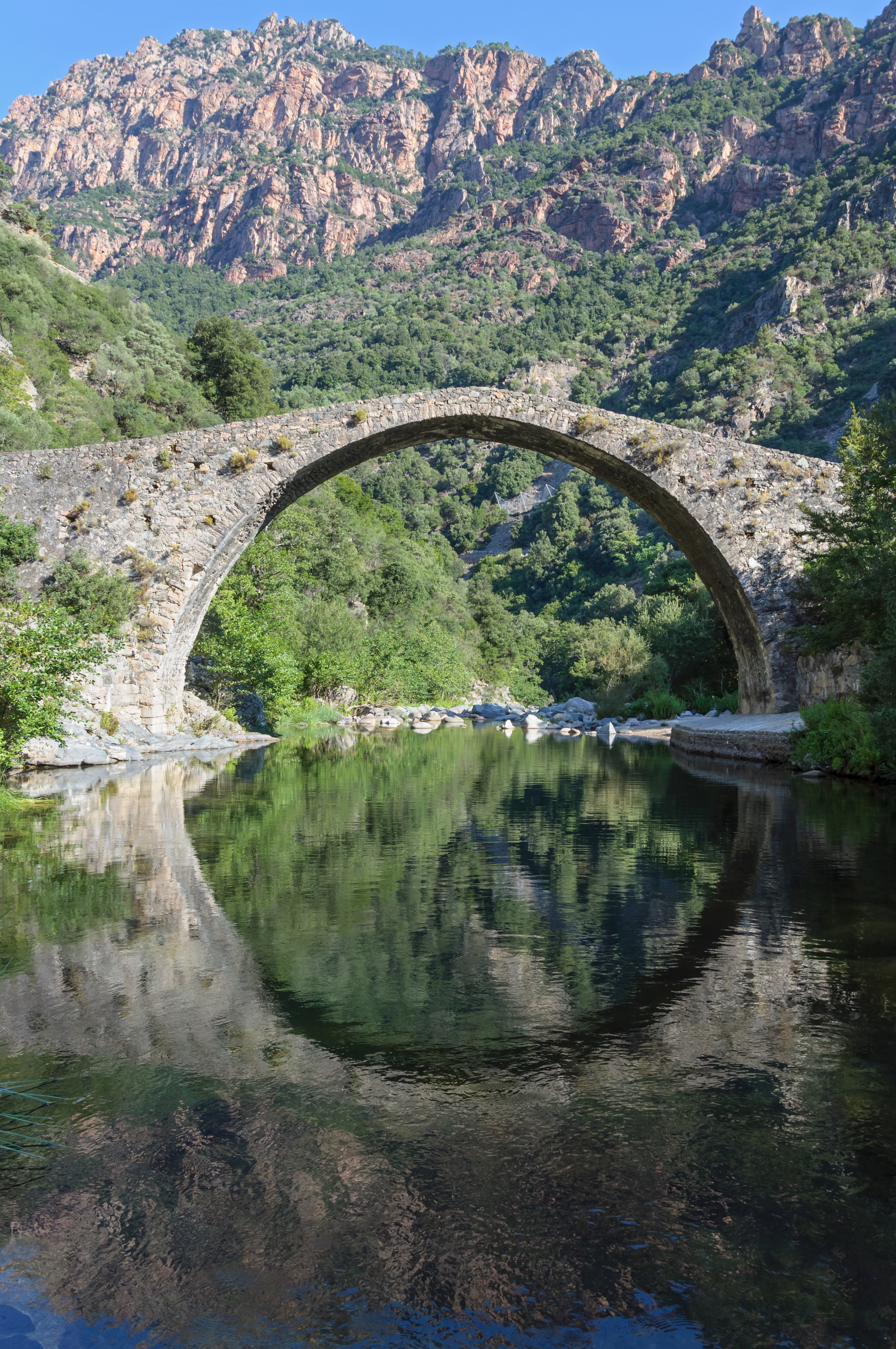 The Genoese bridge of Pianella on the Porto river in Ota, Corsica, France. .